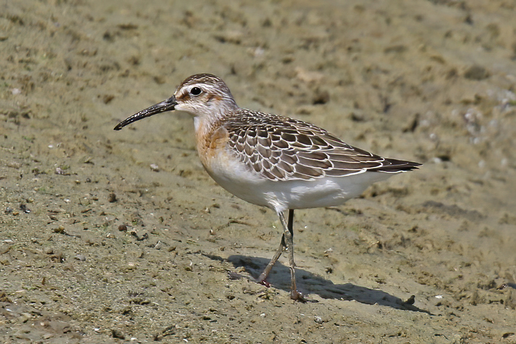 Curlew sandpiper (Calidris ferruginea) juveniles, Farmoor Reservoir, Oxfordshire